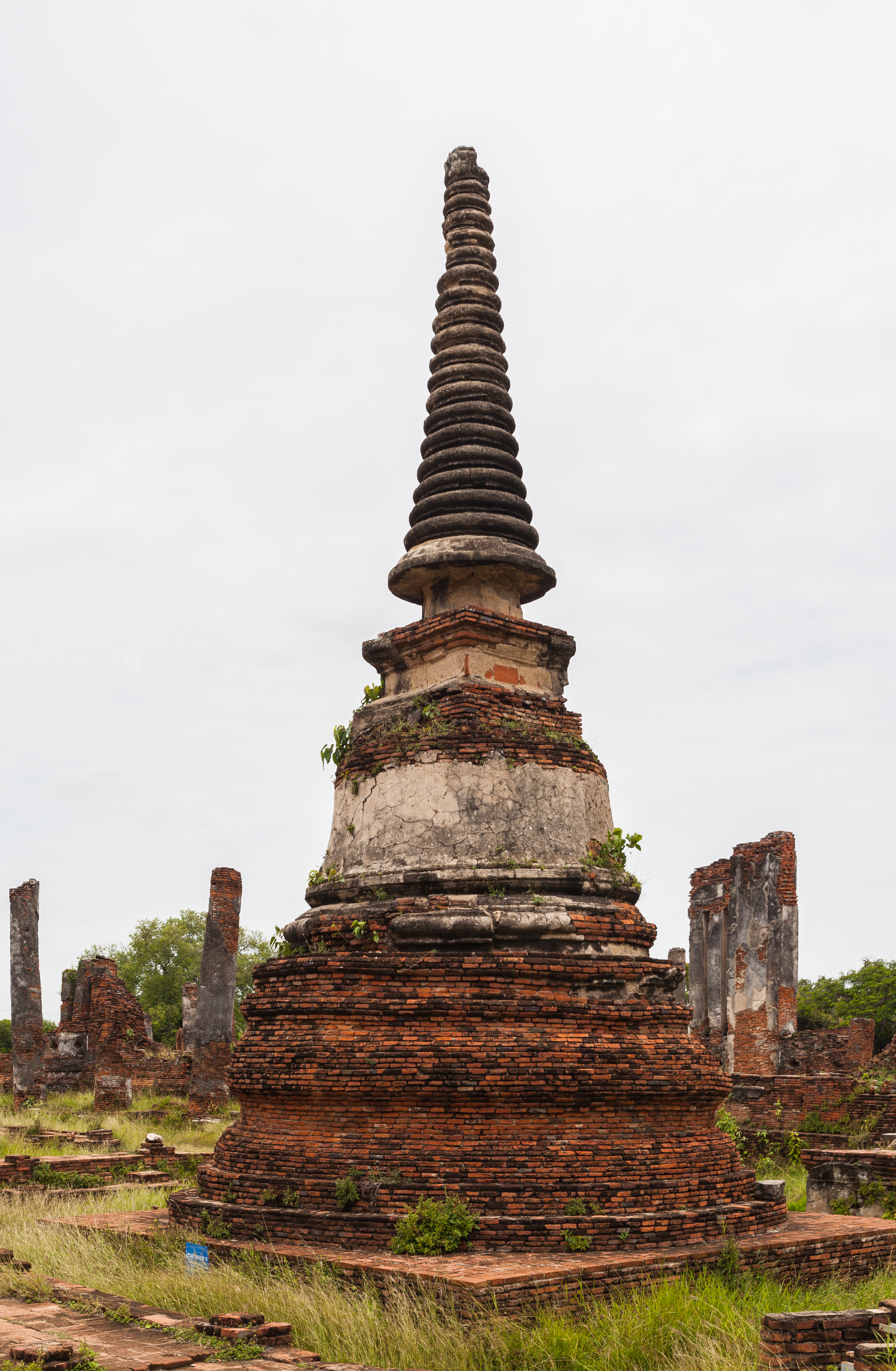 Templo Phra Si Sanphet, Ayutthaya, Tailandia